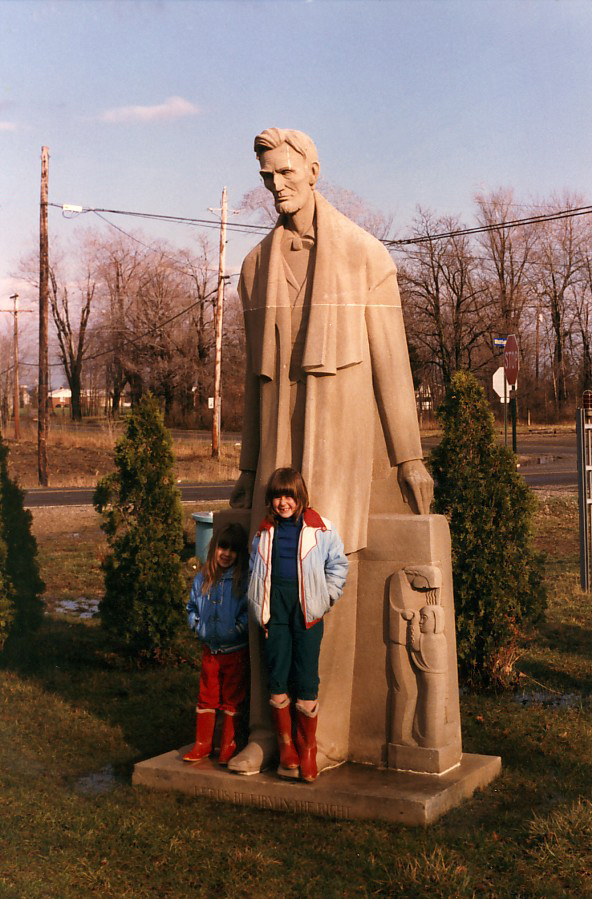 Abraham Lincoln statue by Samuel Cashwan in Ypsilanti, Michigan. Along the bottom of the statue is the inscription "Let us be firm in the right".